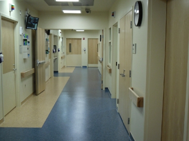 National Institutes of Health Clinical Center - Special Clinical Studies Unit (SCSU), a specialized biocontainment patient-care unit. The negative-pressure anterooms on the left (take note of the white room pressure monitor at the upper right side of the door frame) lead to negative-pressure patient rooms. The negative airflow is used to reduce the risk of transmission by respiratory aerosolization to other parts of the hospital. National Institutes of Health is an agency of the United States Department of Health and Human Services.